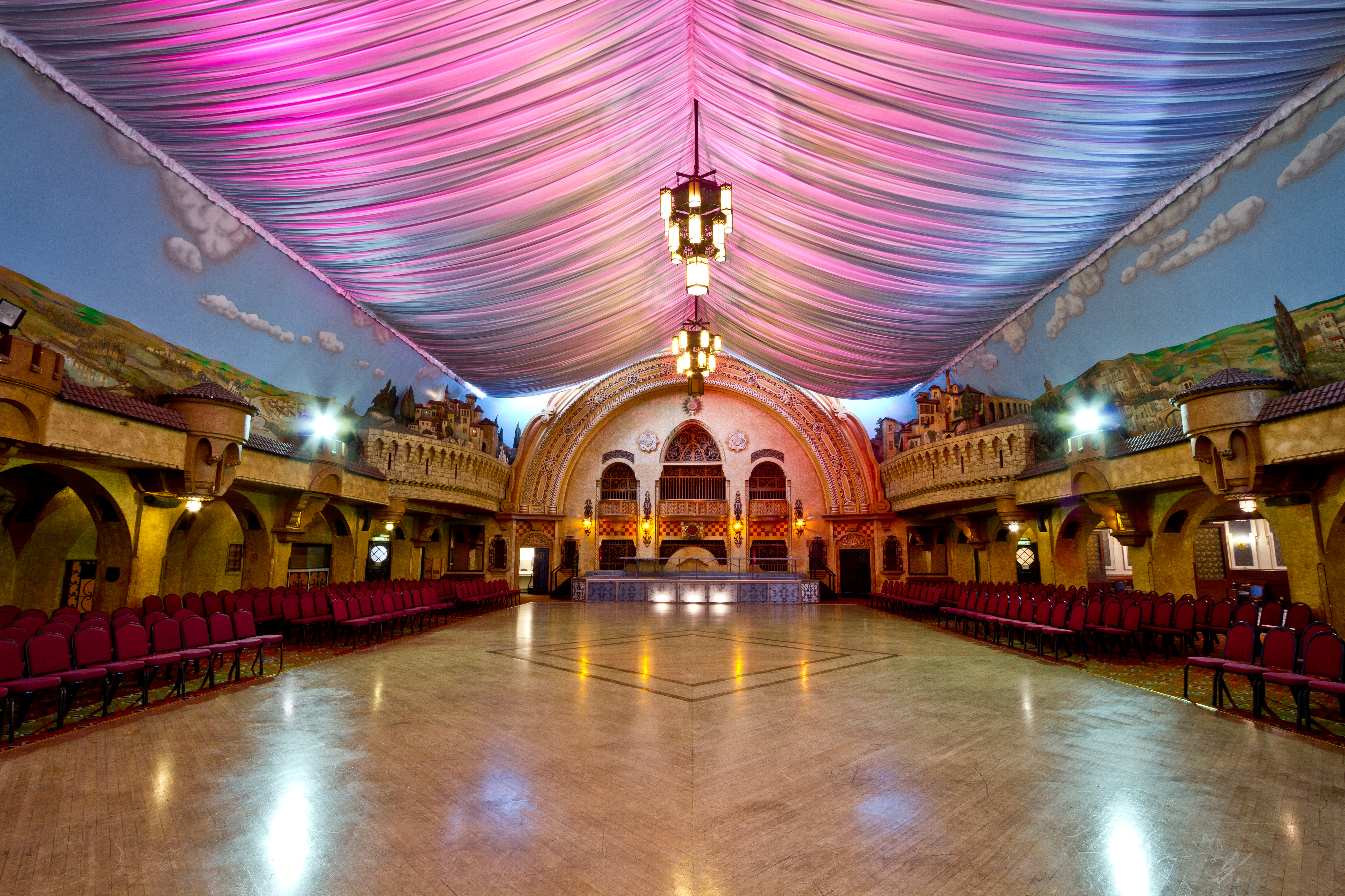 Here is a photograph taken from the Spanish Hall inside the Winter Gardens. Located in Blackpool, Lancashire, England, UK.